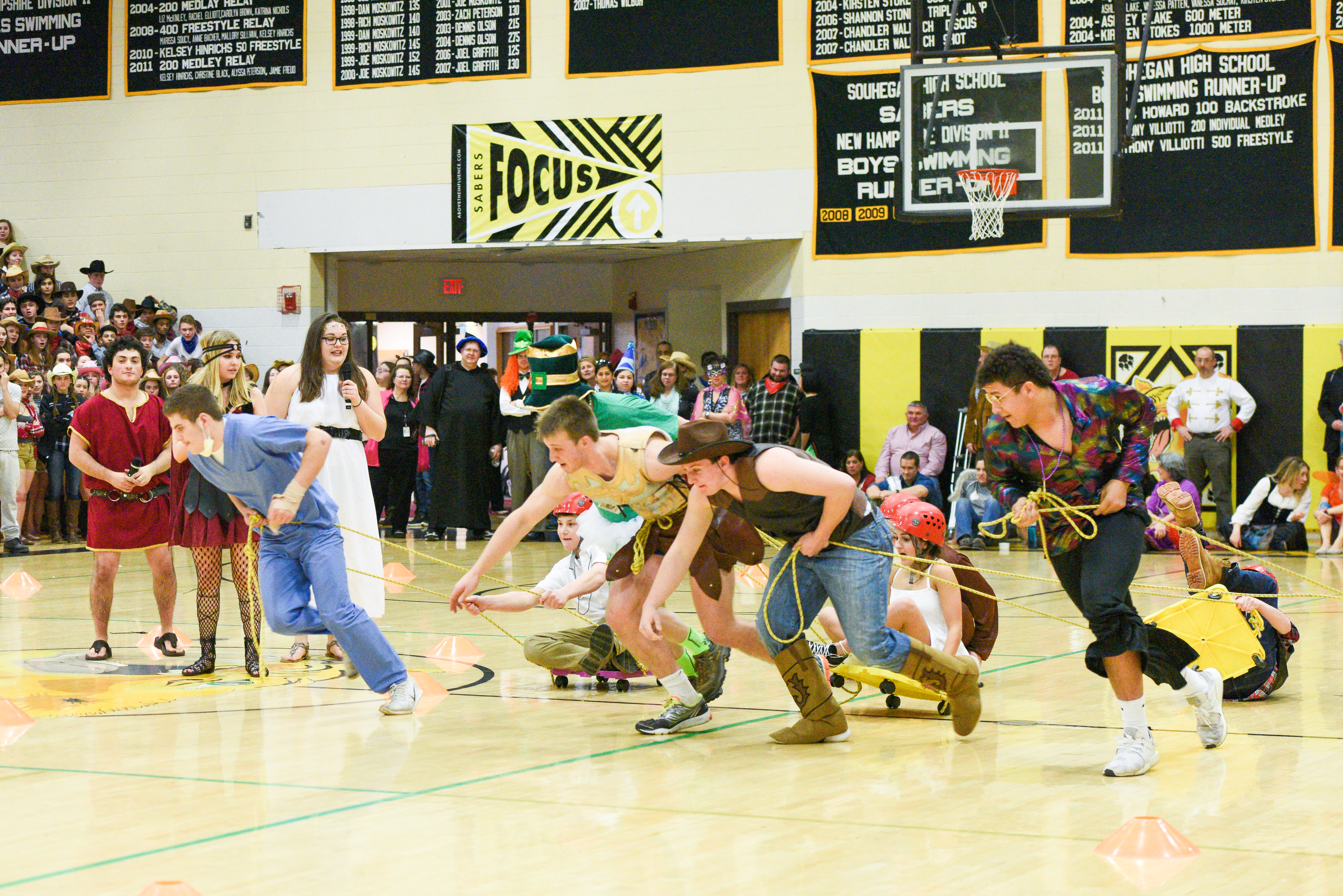 Spirit Week